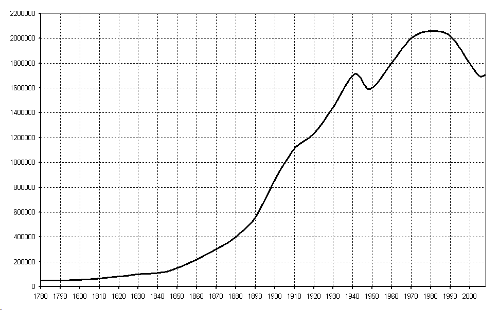 population change of Budapest, 1780-2008 (present-day Greater BP)